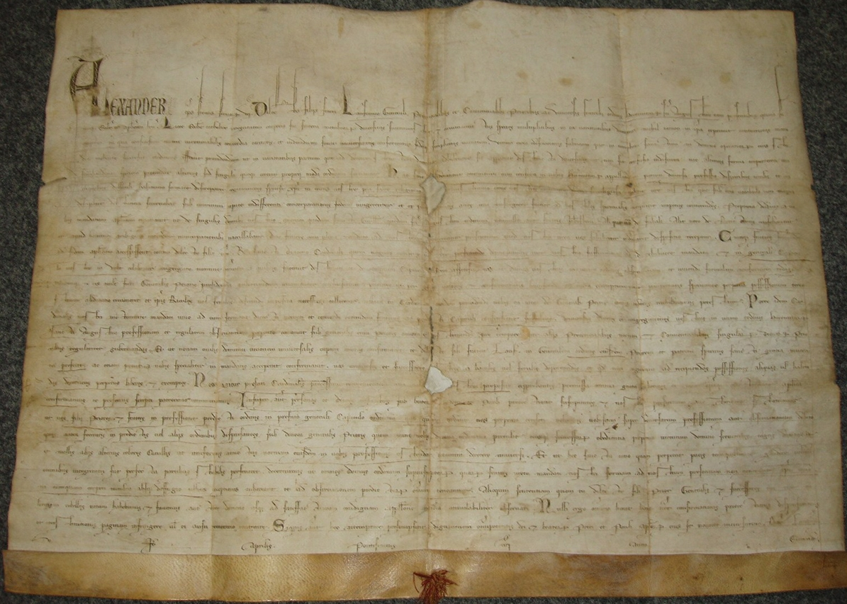 The papal bull Licet Ecclesiae Catholicae issued by Pope Alexander IV on 9 April 1256 that established the Order of St Augustine. The original is preserved in the General Archive of the Augustinian Order in Rome.